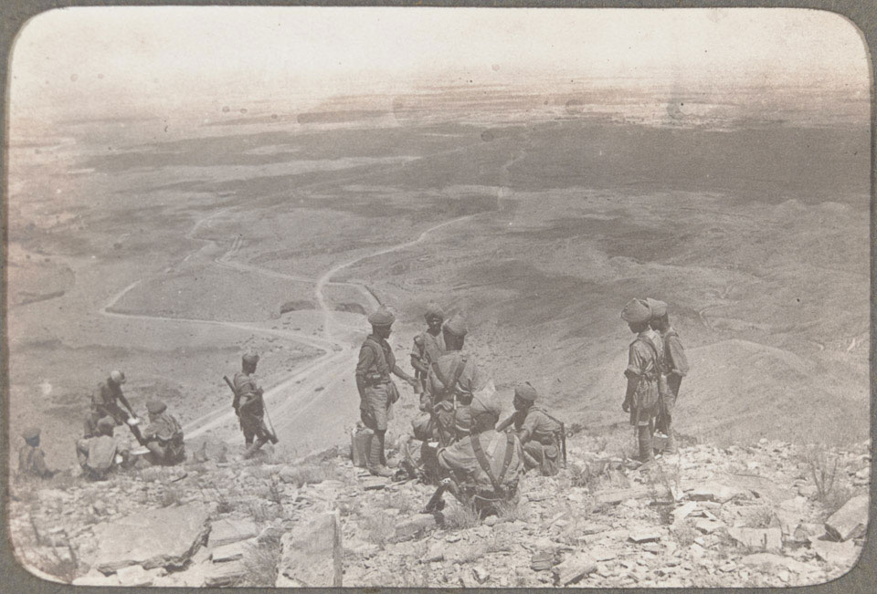 Picquets from 2nd Battalion, 61st King George's Own Pioneers, overlooking the Khyber Pass, 1919 (c) Photograph, 3rd Afghan War, 1919 (c). The Khyber Pass is a 53-kilometer (33-miles) passage through the Hindu Kush. It connects the northern frontier of what is now Pakistan with Afghanistan. During the three Afghan Wars the pass was the scene of numerous skirmishes between Anglo-Indian soldiers and local tribesmen who tried to control access to it.